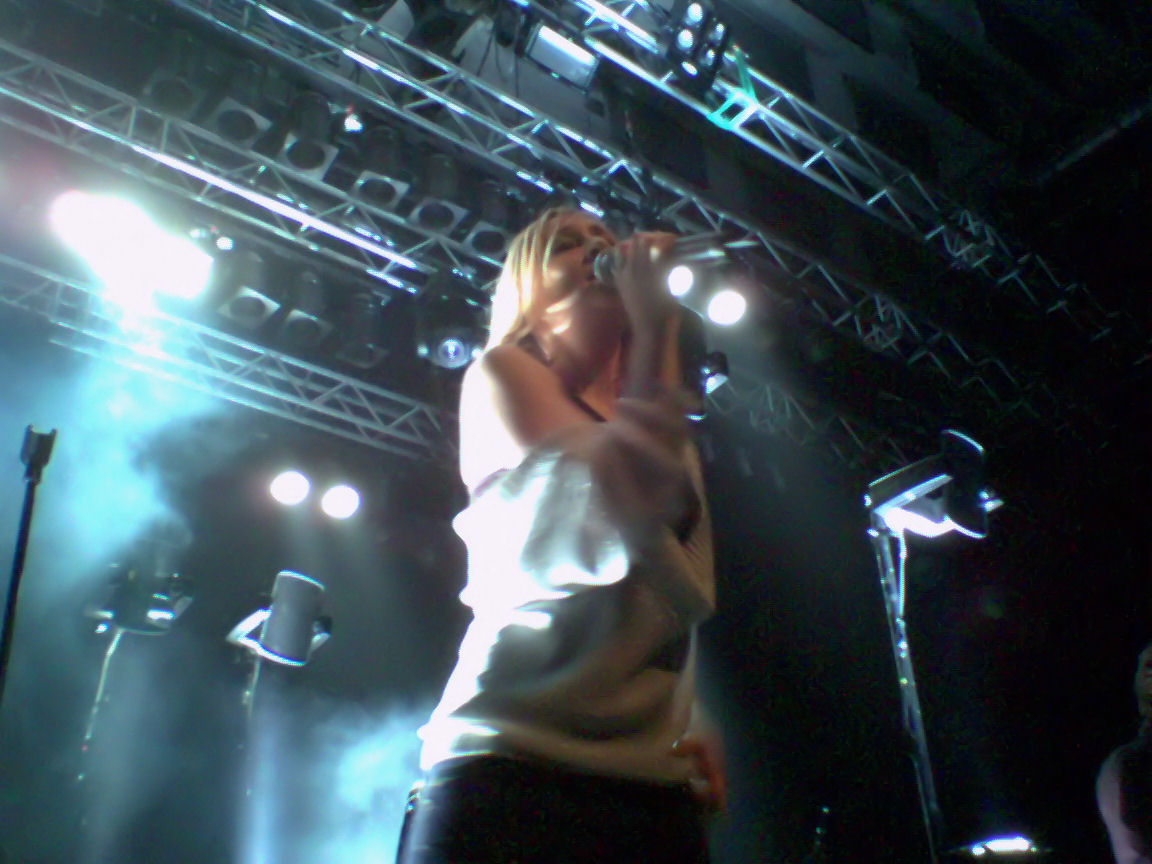 Geike Arnaert of Hooverphonic in the Effenaar in Eindhoven on 24 January 2008. Taken with a Samsung Z500V mobile phone and somewhat cleaned up using Paint Shop Pro.